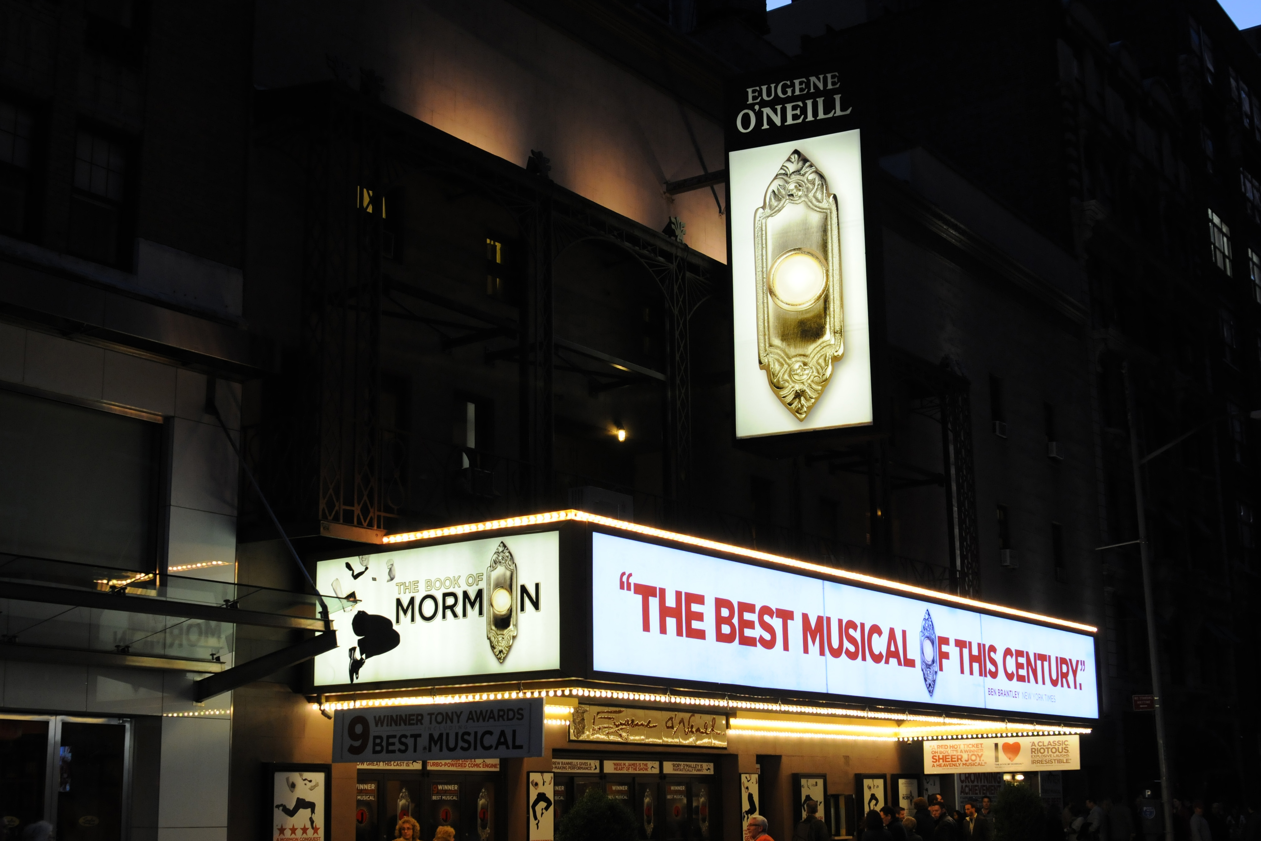 Book of Mormon at the Eugene O'Neill Theatre on Broadway | 230 West 49th Street / New York, NY | October 22, 2011 This photo is licensed under a Creative Commons license. If you use this photo within the terms of the license or make special arrangements to use the photo, please list the photo credit as "Broadway Tour" and link the credit to .